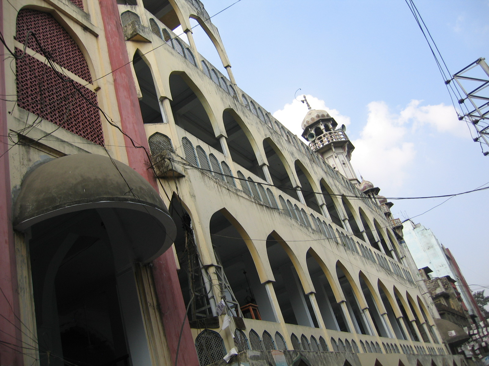 Chawkbazar Shahi Mosque, a Moghal era mosque (estd. 1676) in Old Dhaka, Bangladesh